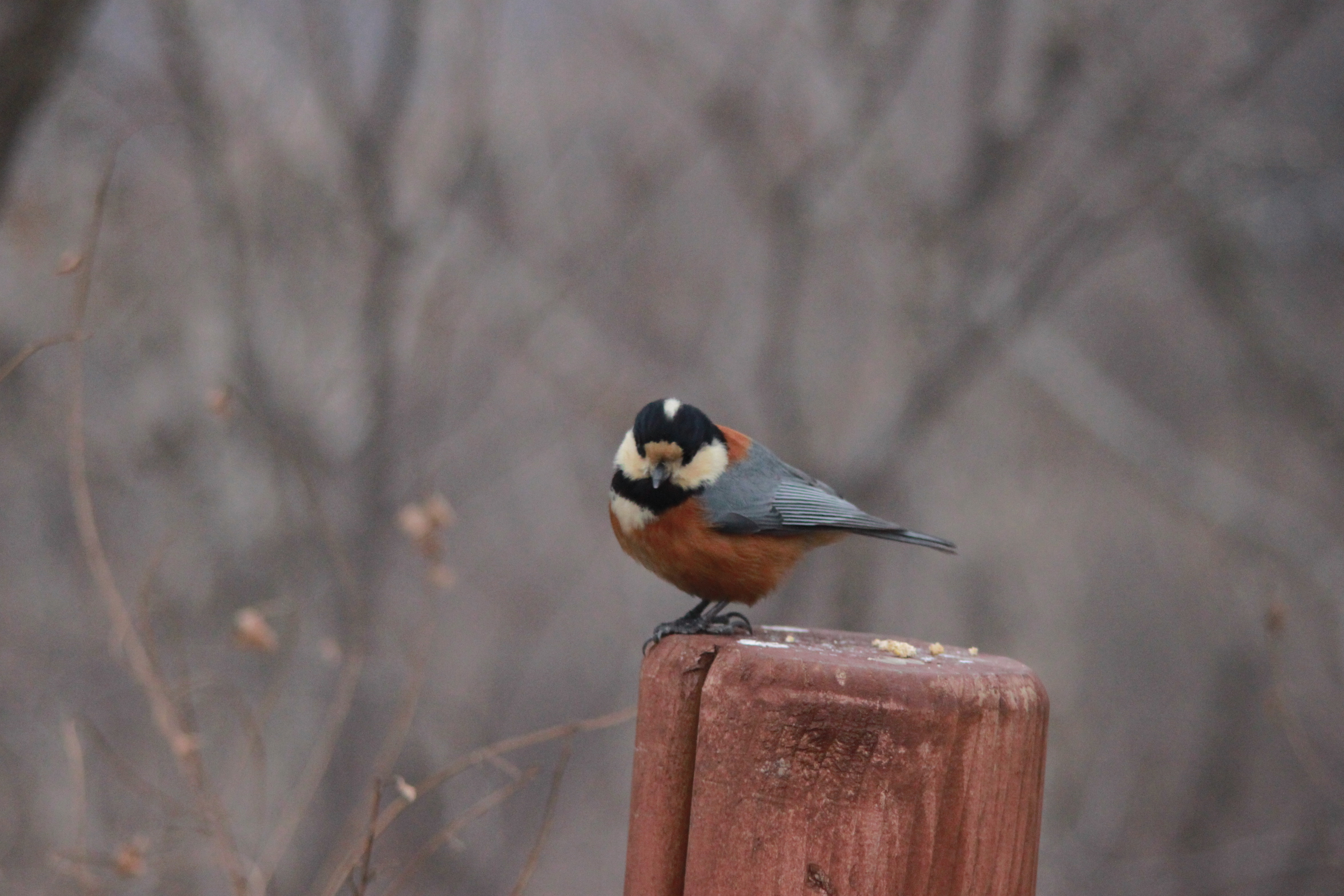 Cyanistes varius varius Korea